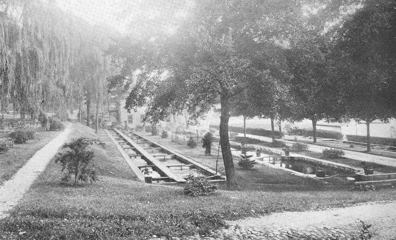 Cold Spring Harbor Hatchery--Southern View, 1914 Subject: Fish hatcheries--Cold Spring Harbor (N.Y.), Cold Spring Harbor Hatchery (Cold Spring Harbor (N. Y.)) Geographic Subject: United States--New York (State)--Cold Spring Harbor Tag: Hatcheries